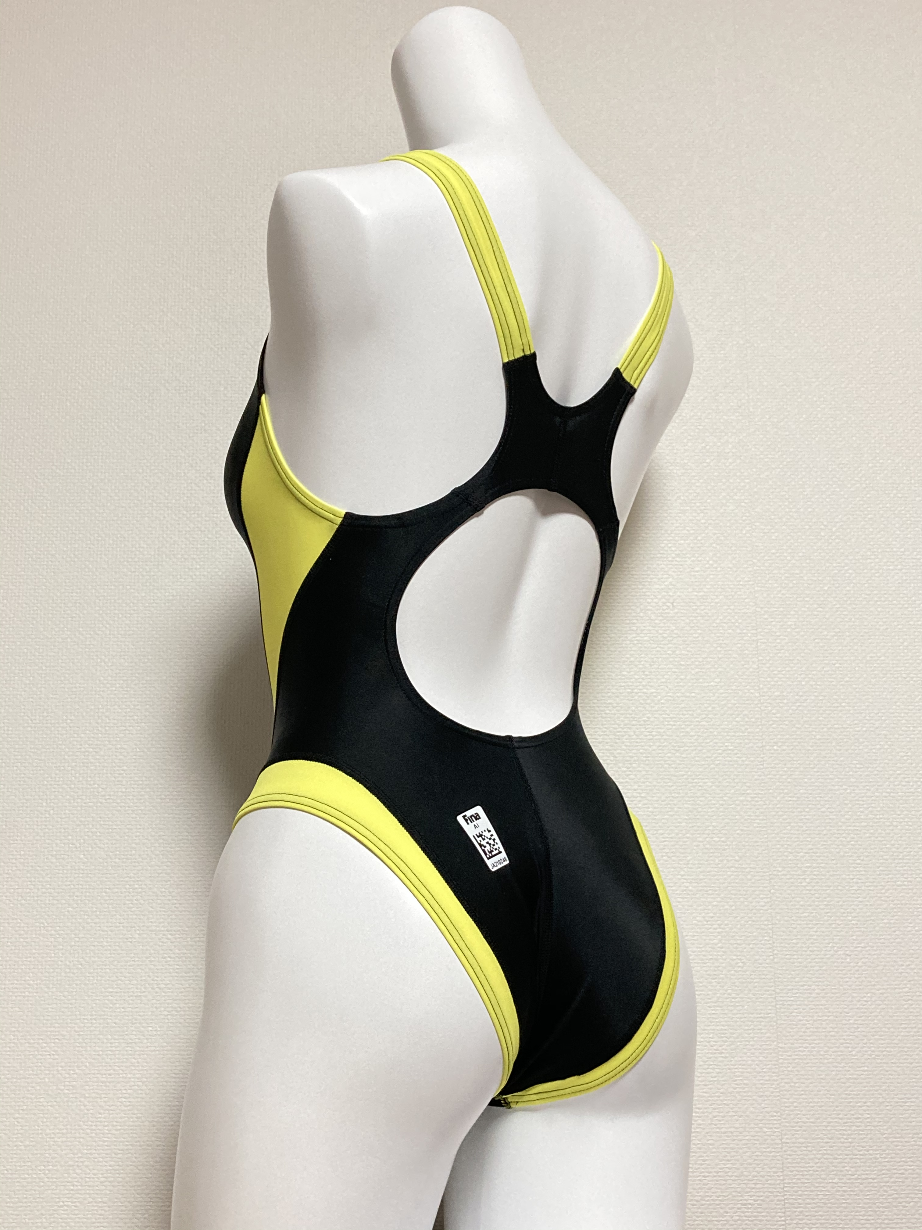 Jaked J-Elastico women’s one-piece sport swimwear